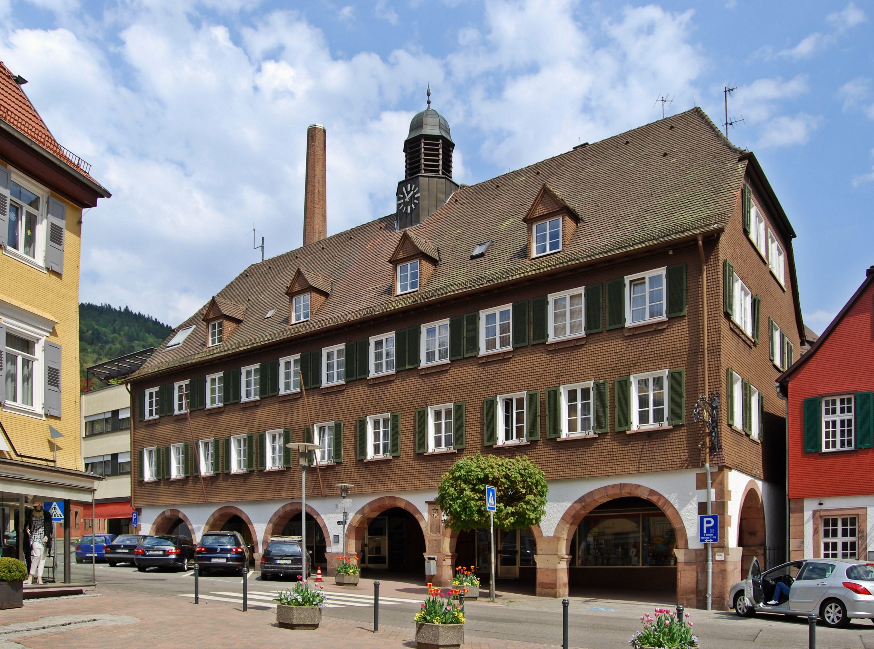 Town hall of Alpirsbach, Black Forest, Baden-Württemberg.